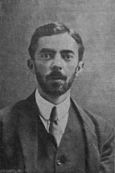 Valér Ferenczy